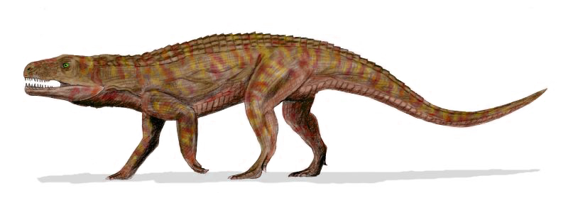 Teratosaurus suevicus, a rauisuchian from the late Triassic of Germany, pencil drawing